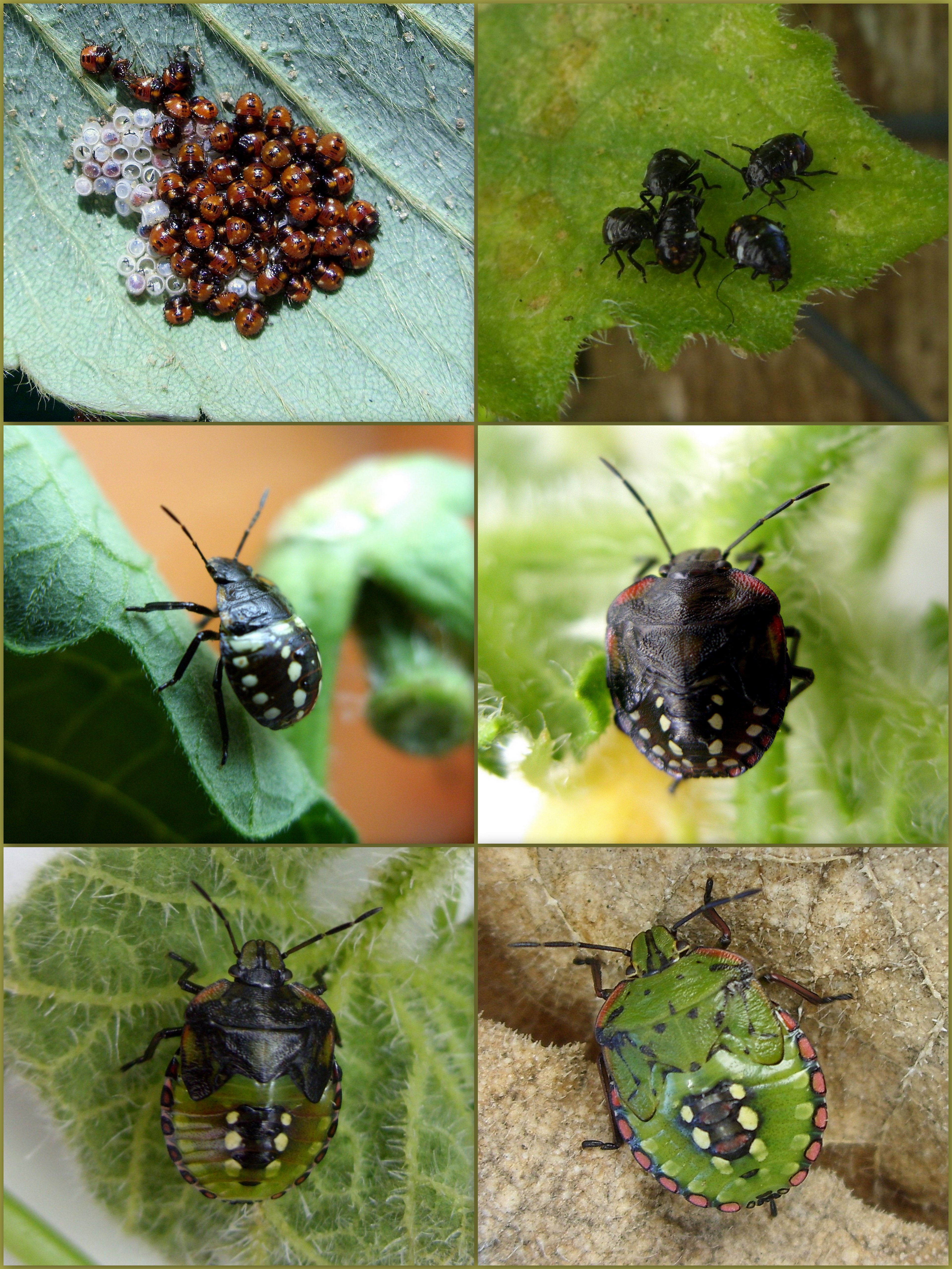 Nezara viridula: metamorphosis of instars